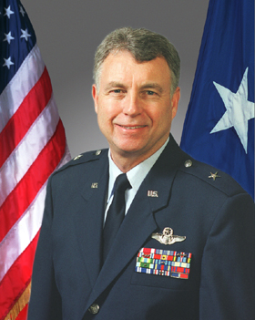 Brigadier General Gary H. Wilfong